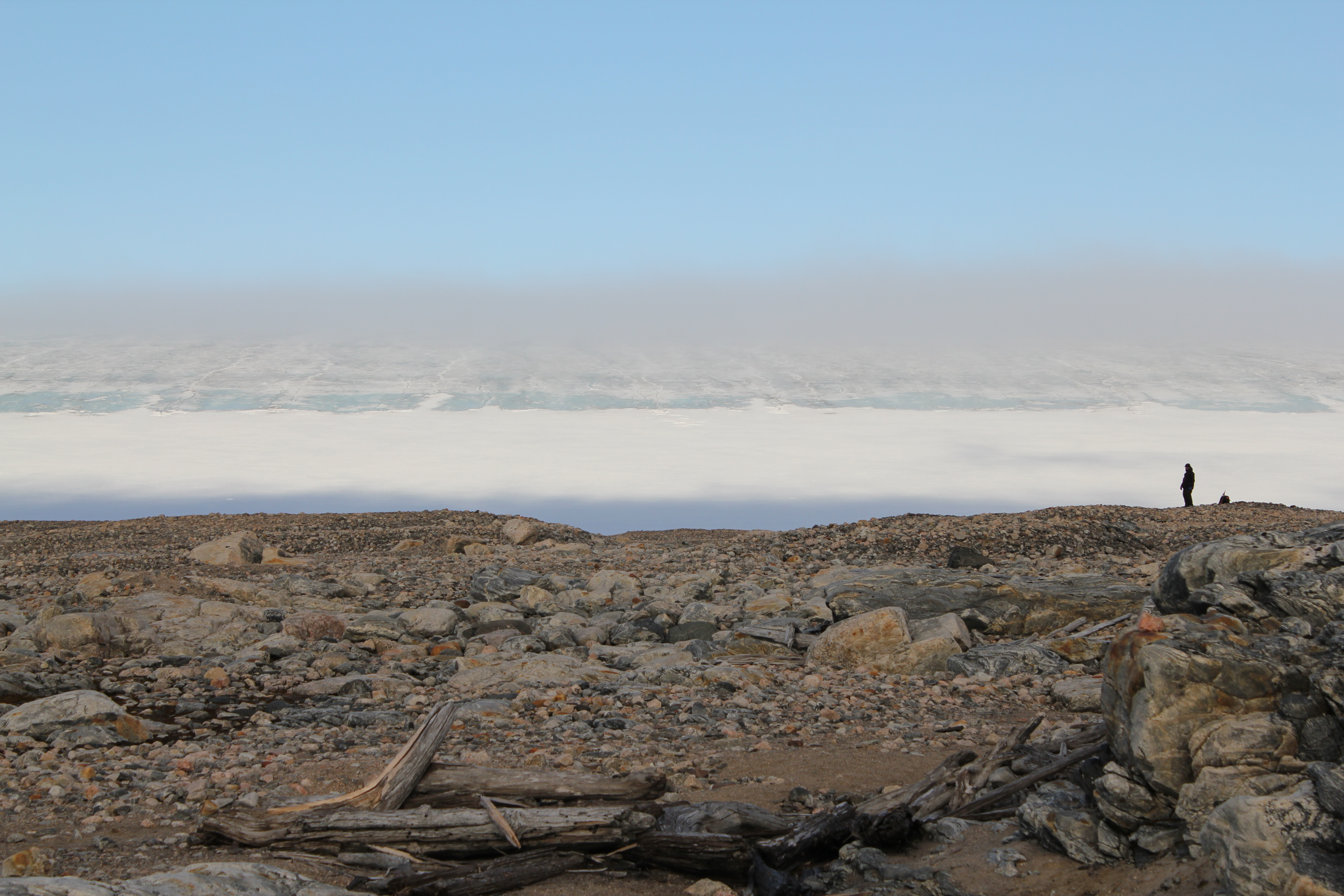 This is a photograph of Kvitoya, looking up into the mountains from the narrow strip of rocky beach. It is taken just to the left of the Andree monument. According to the captain of the ship, we were lucky to be able to get there; it is usually completely inaccessible. [I have a few other pictures, available on request].